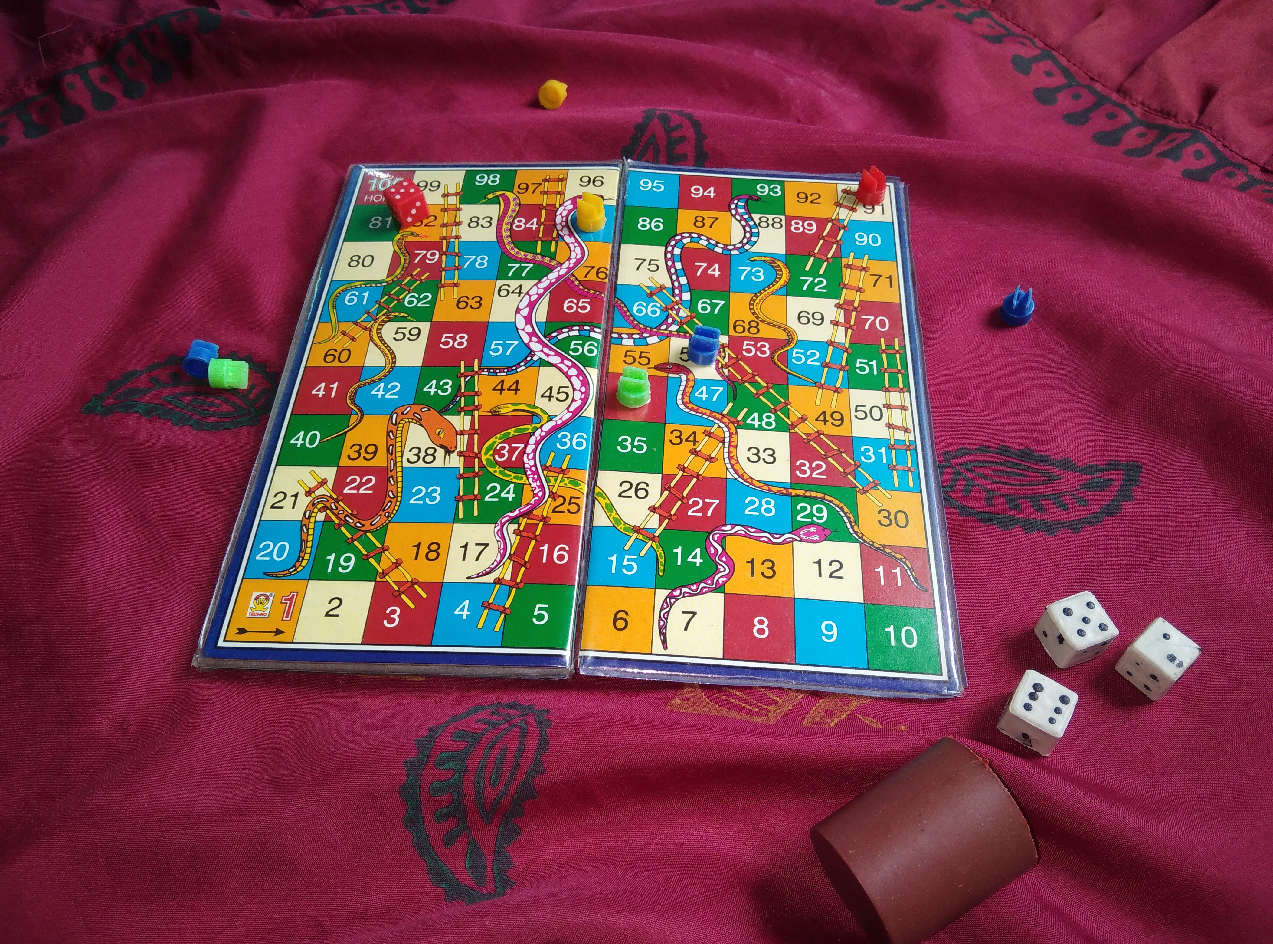 Board of Snakes and Ladders on a red Background